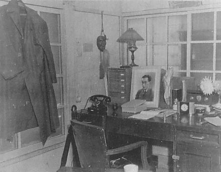 President room of Hikari Club